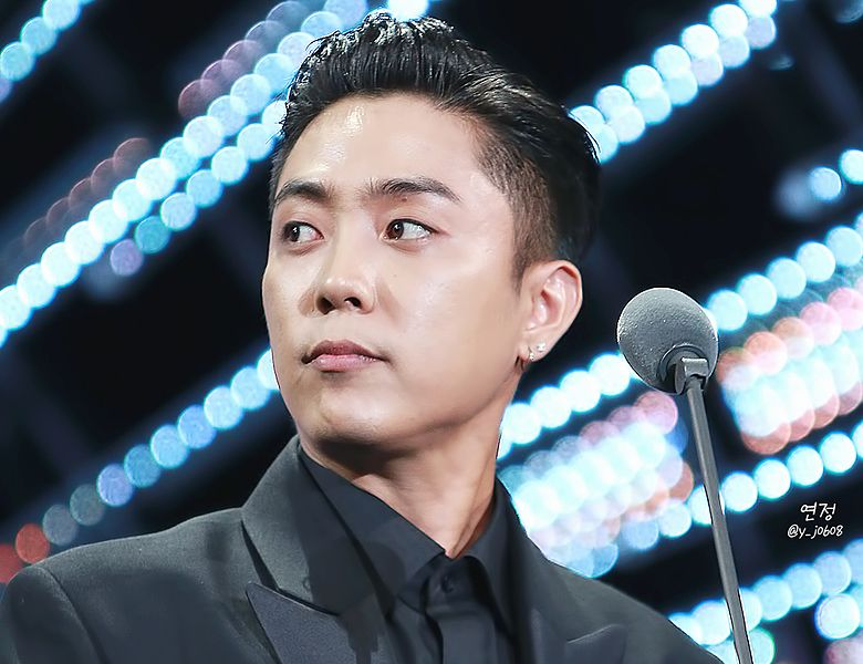 161009 Eun Jiwon tvN10 Awards